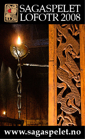 Sagaspelet Lofotr/The Lofotr Saga